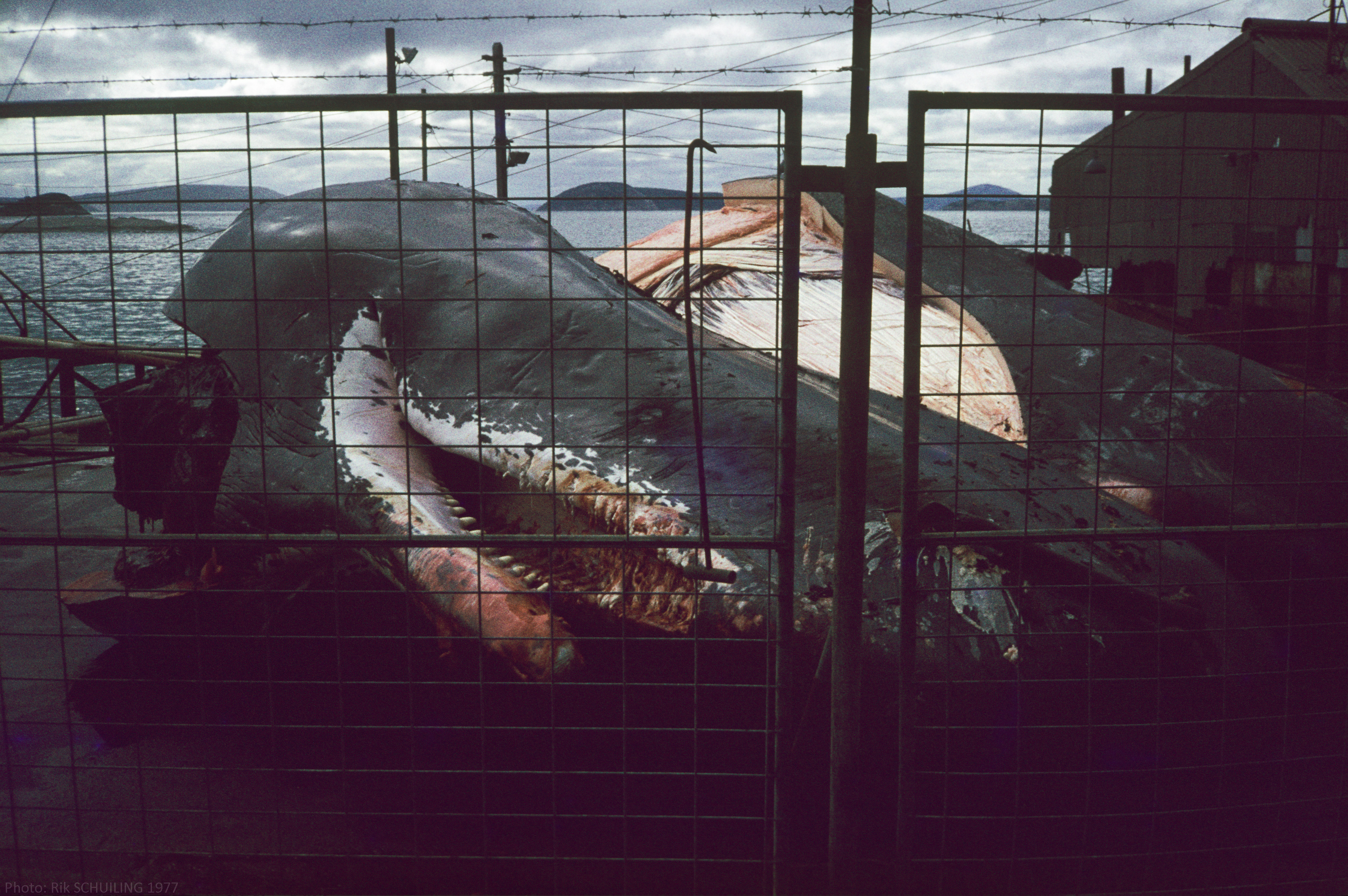 Pieces of sperm whale at the whaling station at Albany, Western Australia, Australia, in July 1977 (the station closed down in 1978).